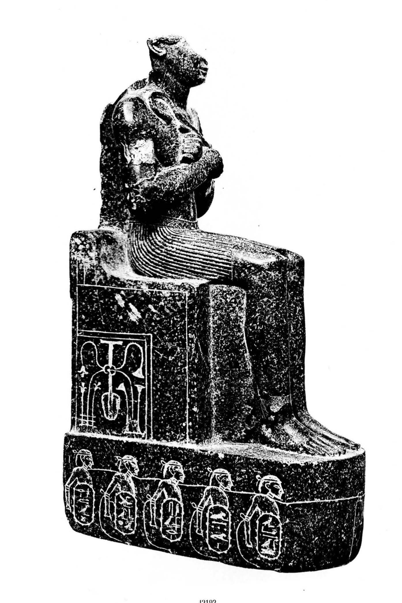 Sitting statue of king Thutmose III of the 18th dynasty, later usurped by/rededicated to Psusennes II and Shoshenq I (end 21st-beginning 22nd dynasty). The statue also mention an hypothetical pharaoh Maatkheperre setepenre, Shoshenq meryamun, perhaps an ephemeral ruler in Thebes.Poprhyry, H 0,35m, found in Karnak cachette, April 3 1904, now in Cairo Museum (CG 42192 / JE 37005).